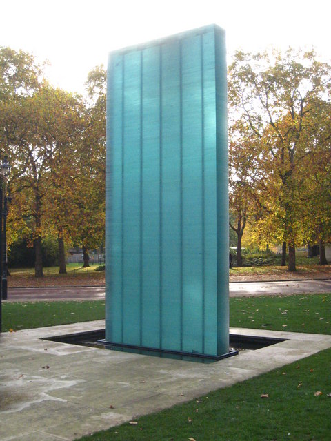 The National Police Memorial Following the shooting of policewoman Yvonne Fletcher outside the Libyan Embassy in 1984, film director Michael Winner founded the Police Memorial Trust. Initially the Trust concentrated on erecting smaller monuments at the points where officers had died on duty but from the mid-1990s the Trust also lobbied and raised funds for a single, larger scale memorial to commemorate all police officers who had died in the course of their duties. The monument was designed by Lord Foster of Thames Bank (Norman Foster)and Danish designer Per Arnoldi. It was unveiled by HM The Queen on 26 April 2005.